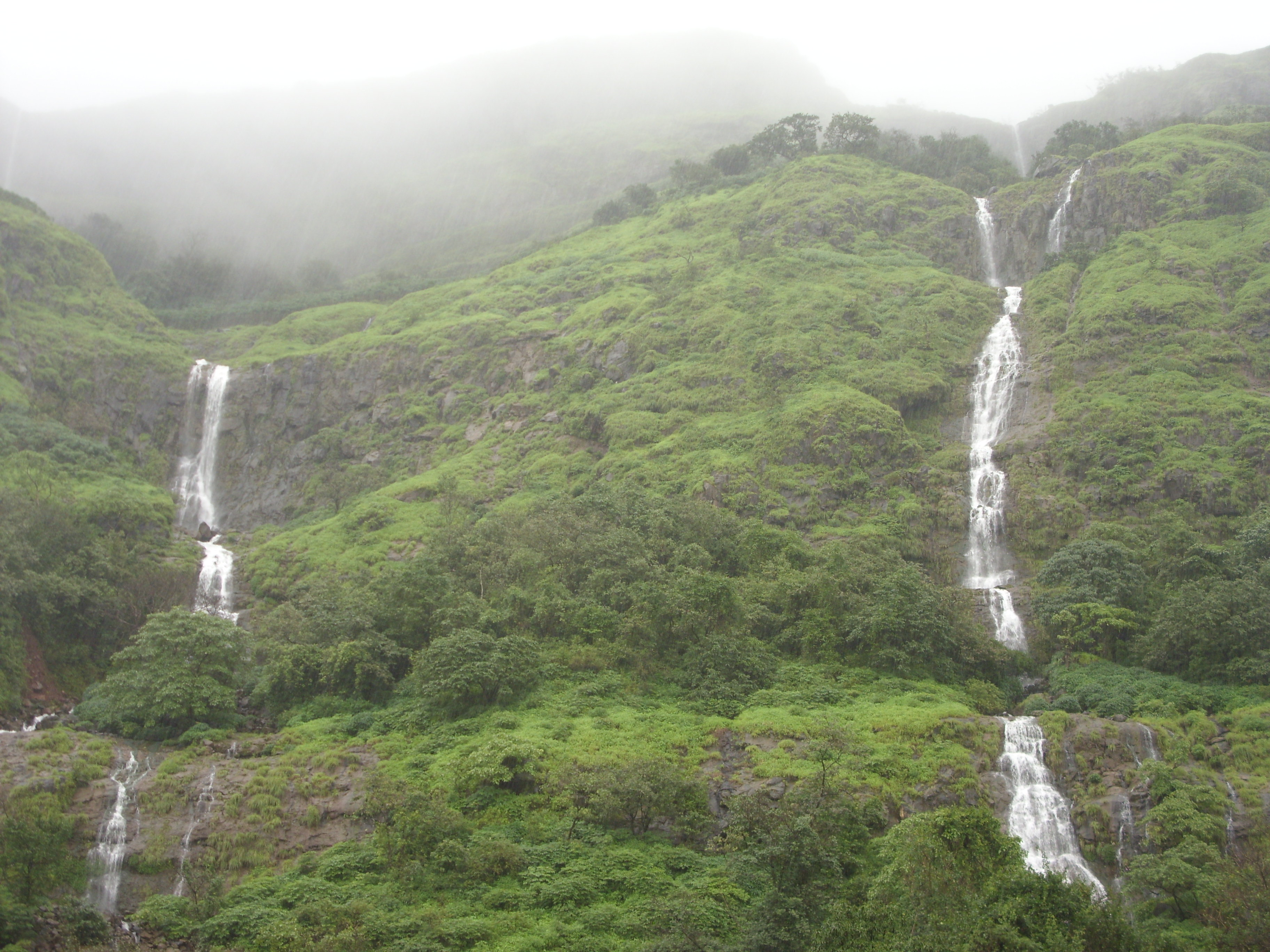 Tamhini ghat in rainy season